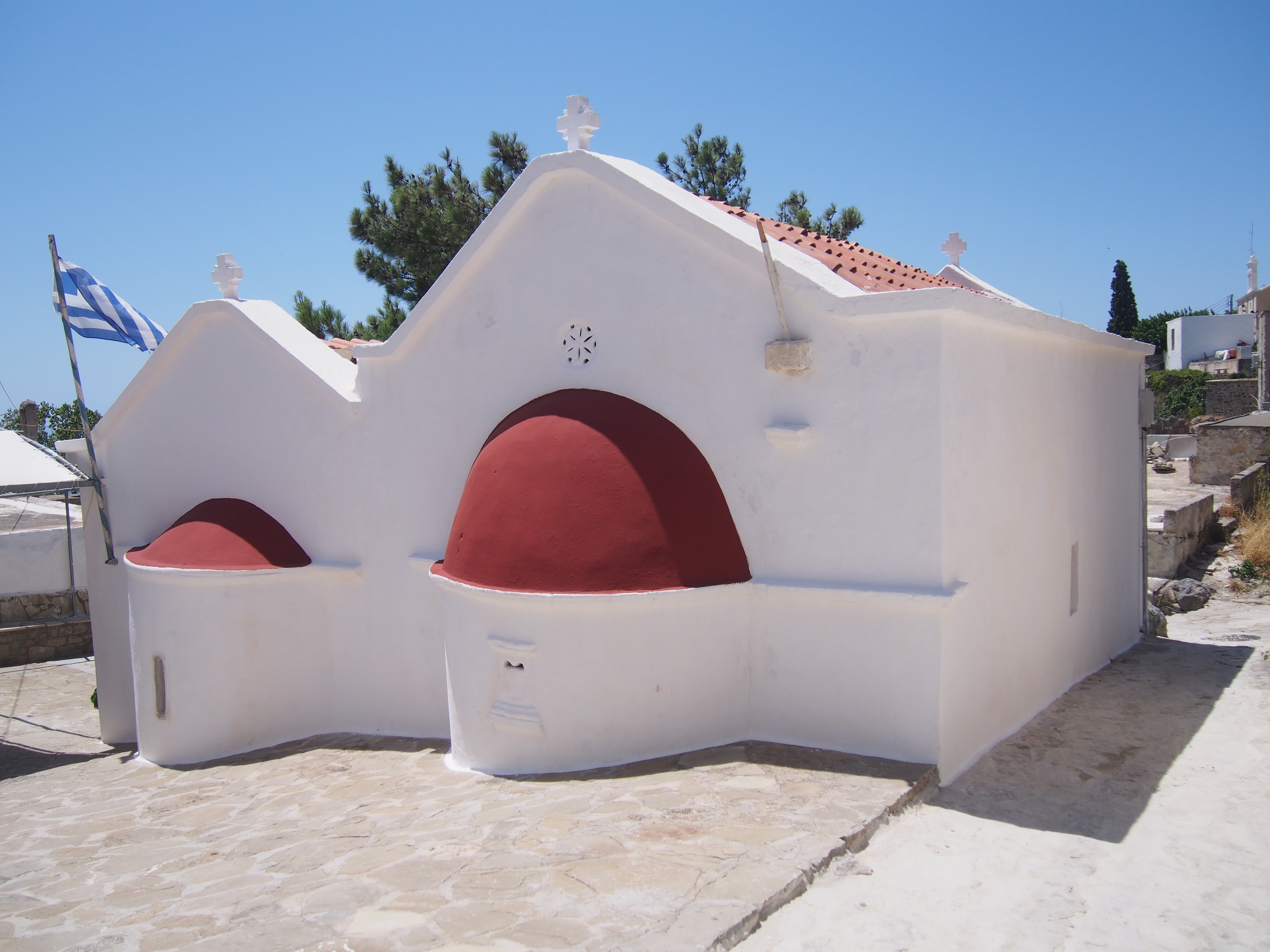 The church of Virgin Mary and Saint Nikolaus at Anatoli, Crete. The aisle of Virgin Mary (the south one) is the oldest.